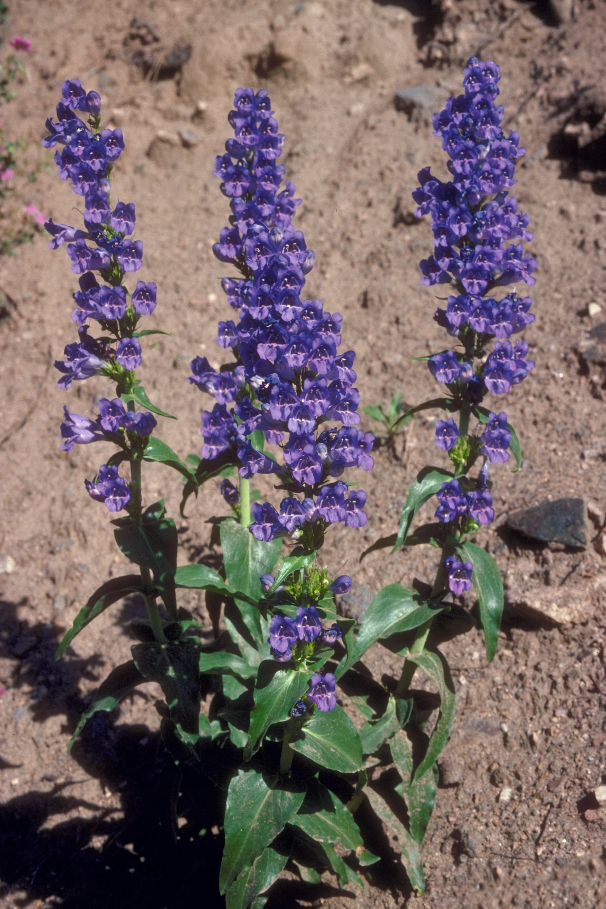 Penstemon glaber var. alpinus (Torr.) A. Gray - alpine sawsepal penstemon - Pike and San Isabel National Forests, south-central Colorado, USA